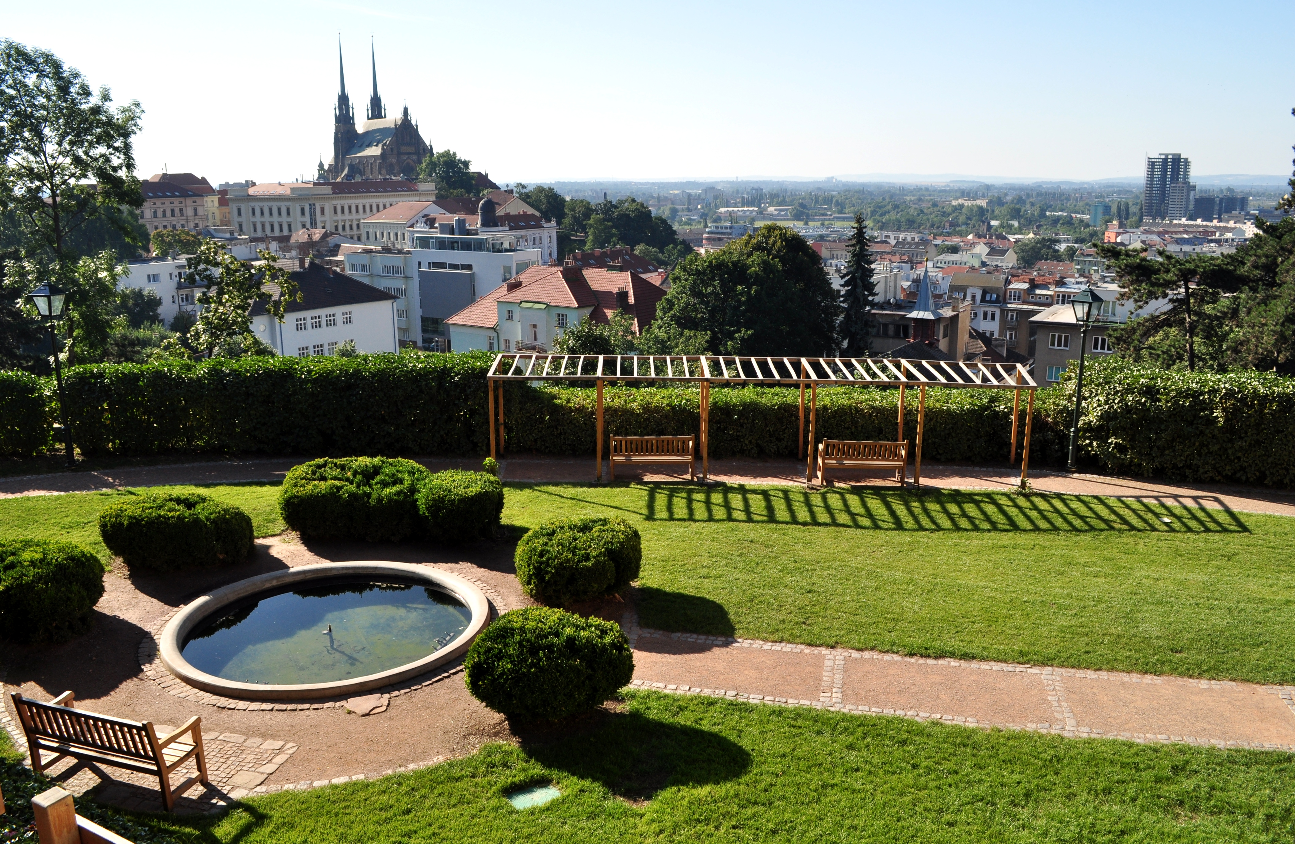 Špilberk park in Brno, Moravia, European Union